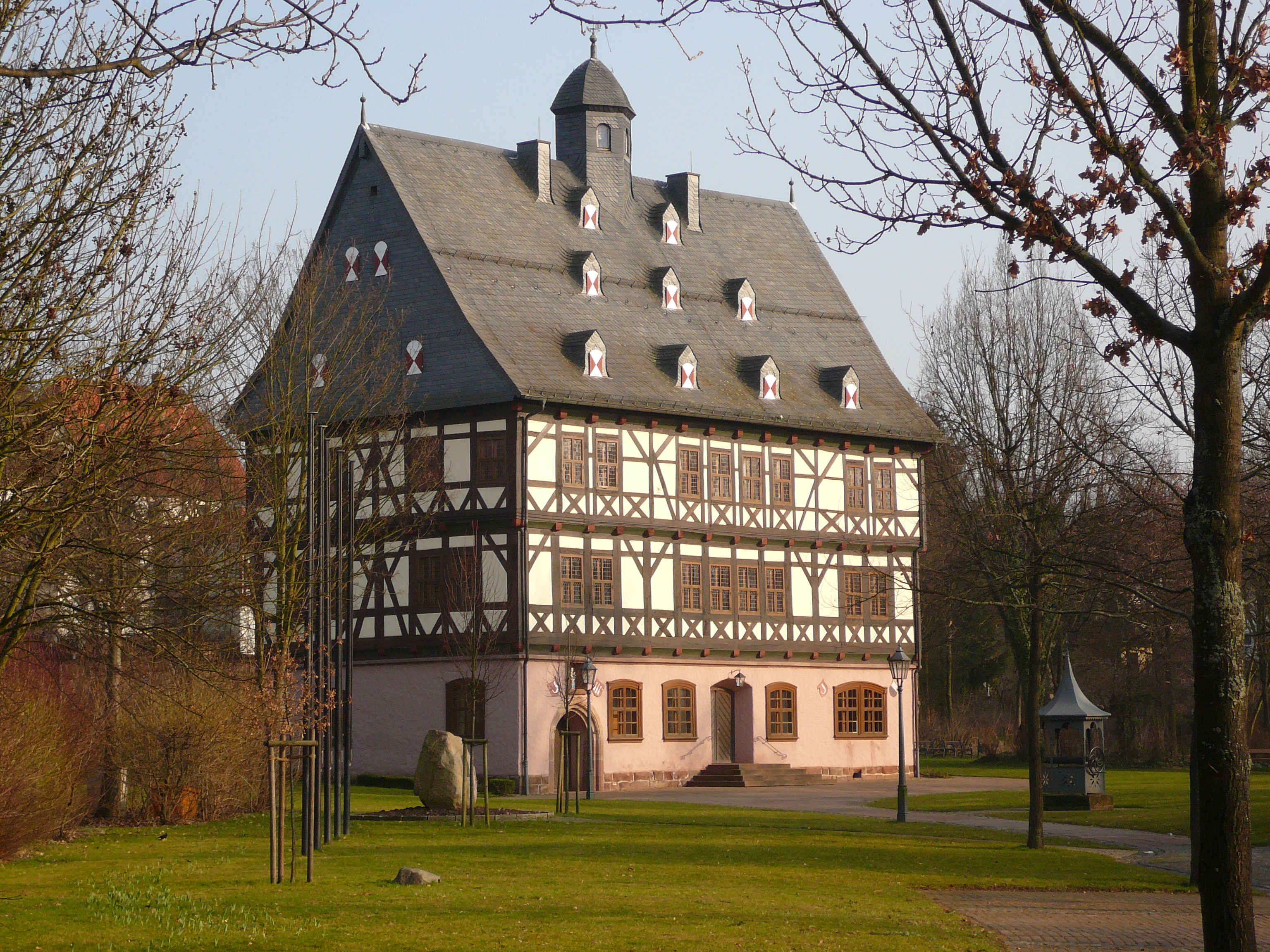 Manor house in Gieboldehausen, early 16th century